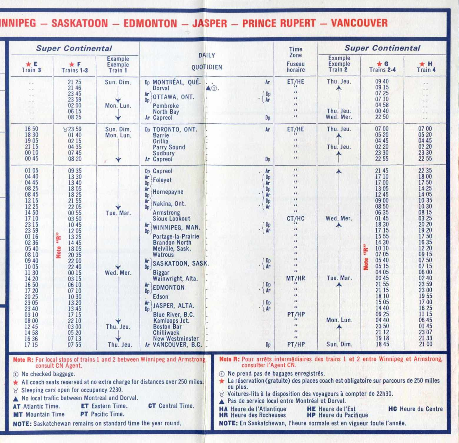 Canada, Canadian National Railway timetable issued on April 27, 1975.